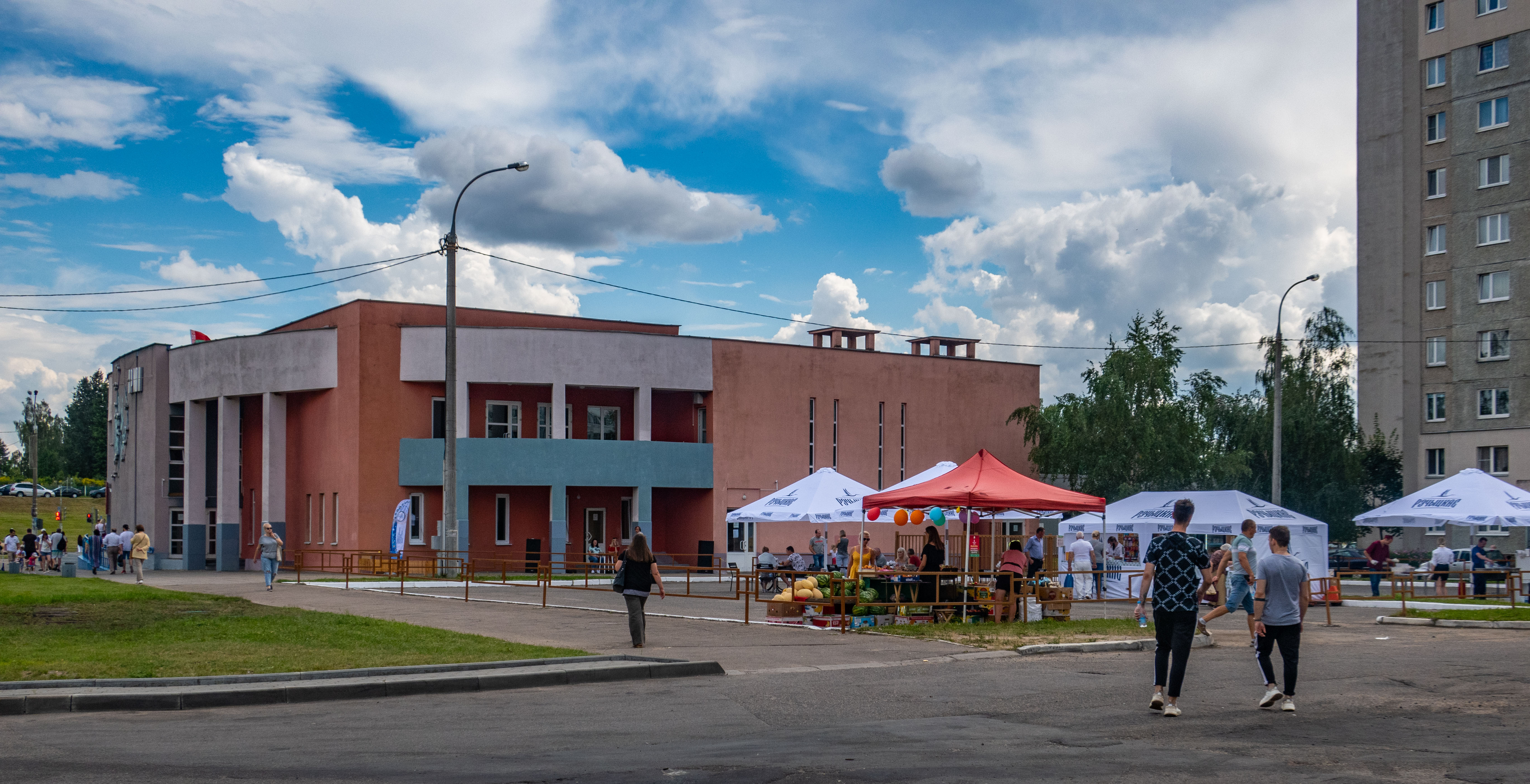 External view of one of the polling stations during 2020 Belarusian presidential election. Minsk, Belarus